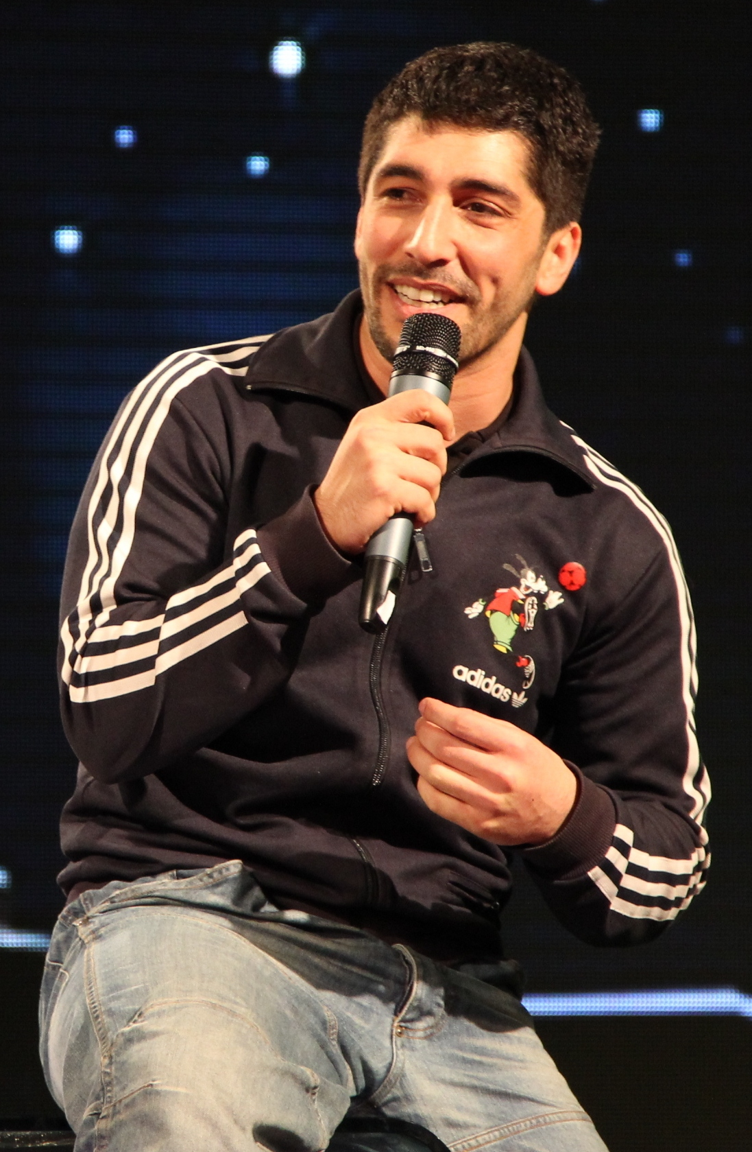 Noman Hosni 2012. Patience/Tilllate